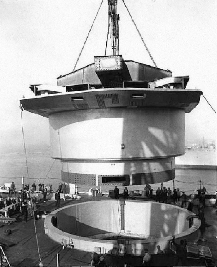 "Finally, a tremendous turret, machined from start in the Turret Shop and carried to the ship by barge, is swung into place."